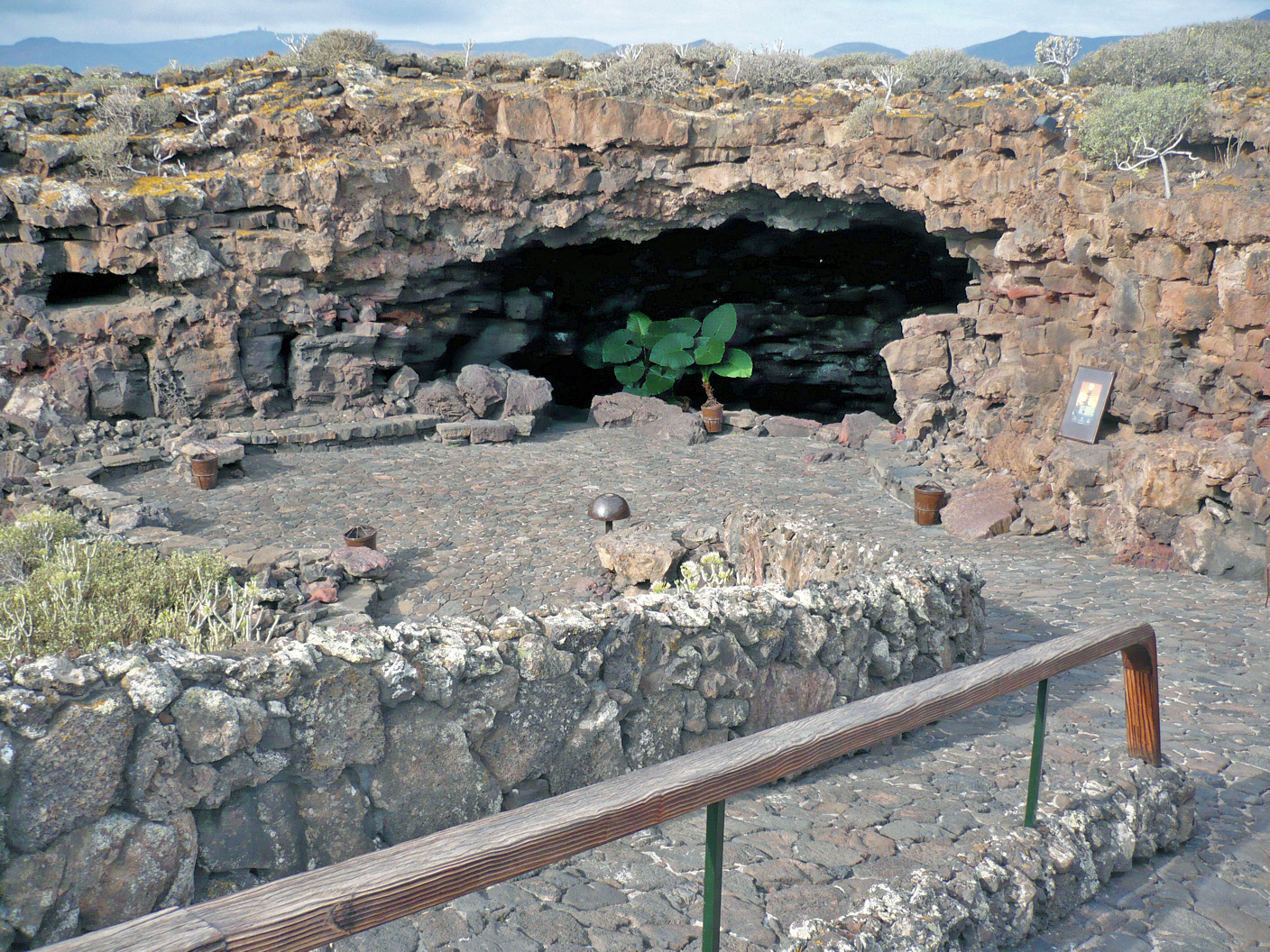 Entrance to Cueva de los Verdes, Lanzarote, Kanarische Inseln, Spanien